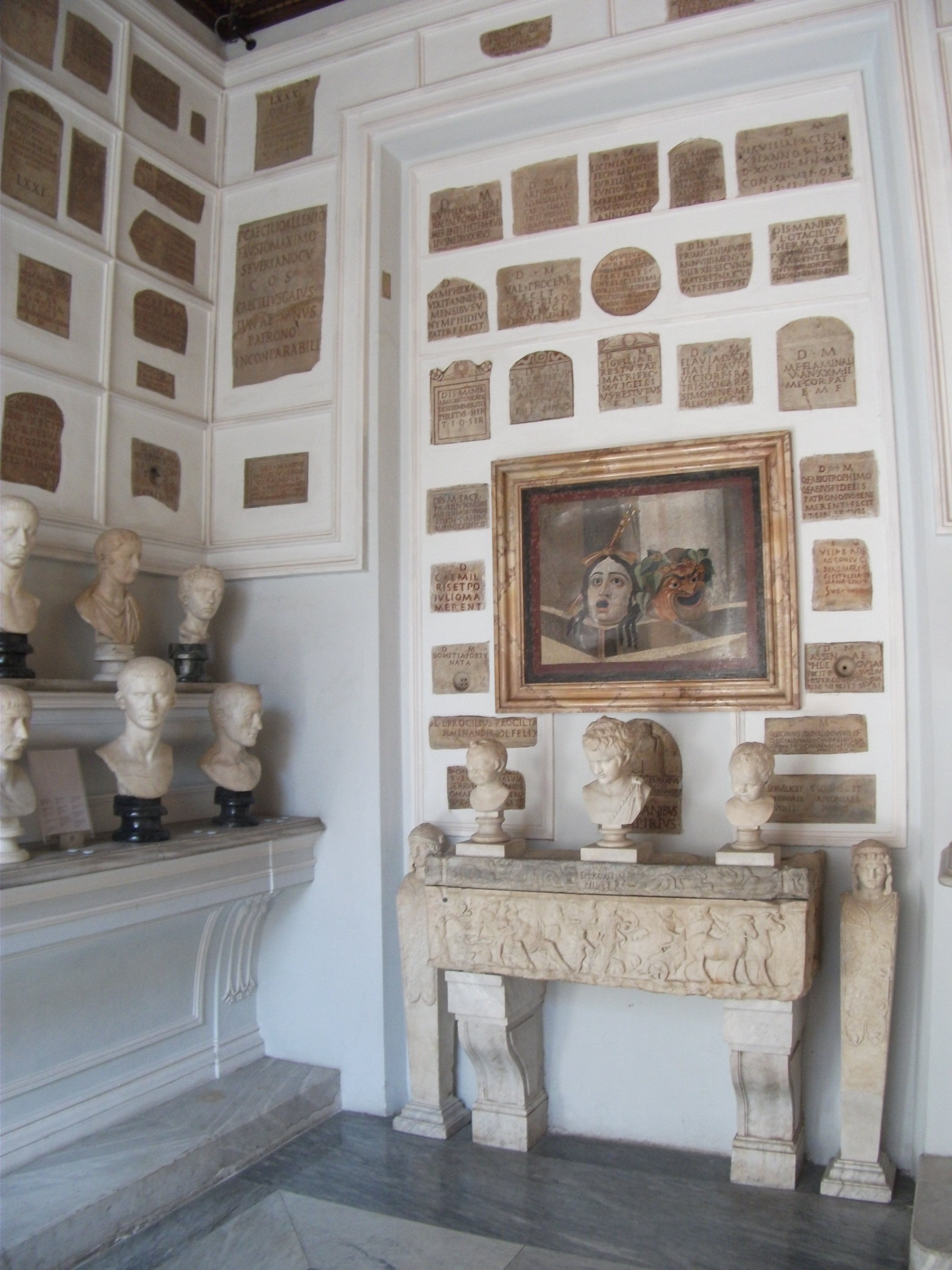 Palazzo dei Conservatori (Rome)